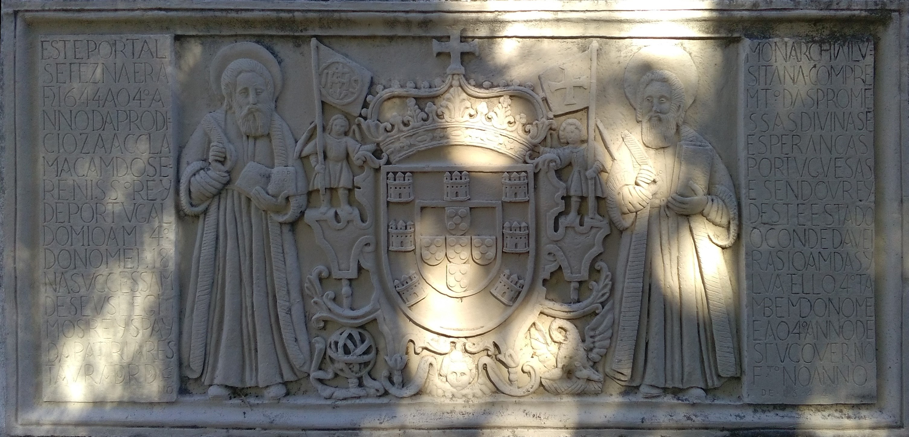 Bas-relief dated 1644, nowadays located next to the staircase that separates the Botanical Tropical Garden from the garden of the Palace of the Counts of Calheta. It displays the coat of arms of the kingdom of Portugal, topped by a crown and by its sides the flags of the Company of Jesus (Jesuits) and the Cross of Christ. There are also two Evangelists. There is also an inscription which reads "ESTE PORTAL SE FEZ NA ERA DE 1644 AO 4º ANNO DA PRODICIOZA ACCLAMACAM DO SERENISS'REY DE PORTUGAL DOM IOAM 4º DO NOMEE 18º NA SUCCESSAM DE SEUS LEGI(TI)MOS REYS PAY DA PATRIA RESTAURADOR DA MONARCHIA LUSITANA - COMPREMTº DAS PROMESSAS DIVINAS E ESPERANCAS PORTUGUESAS E SENDO REY DESTE ESTADO O CONDE DAVEIRAS IOAM DA SYLVA TELLO 4º TAMBEM DO NOME E AO 4º ANNO DE SEU COVERVO F(EI)TO NO ANNO DE 1644".